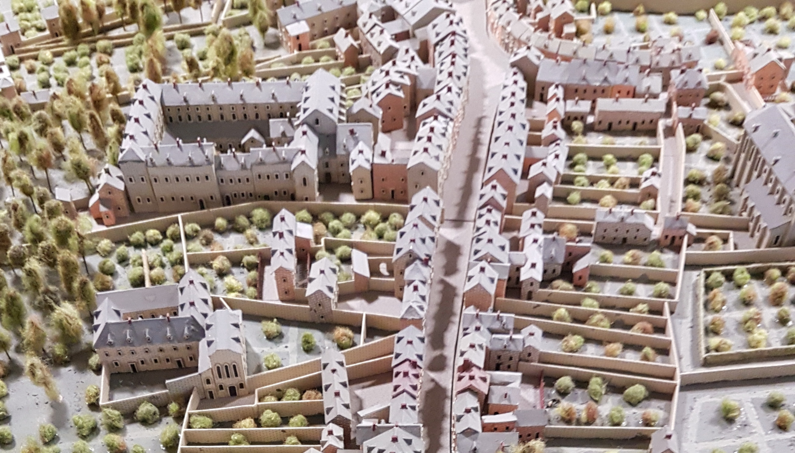 View of the environs of Brusselsestraat in Maastricht, Netherlands. On the left the monastery of the Alexians (Cellebroeders) and the Beyart monastery. Detail of the 20th-century copy of the Maquette of Maastricht, an exact scale model of the city and its fortifications in 1750, a project coordinated by French engineer Larcher d'Aubencourt during the French occupation of Maastricht. The original is in the Palais des Beaux-Arts in Lille, France. The copy is in the Centre Céramique in Maastricht.